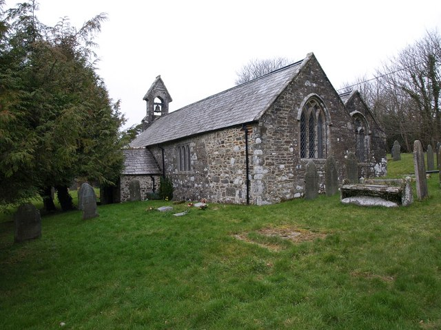 St Michael and all Angels, Trewen The little church has a bellcote rather than a tower. From Genuki: "The church is an ancient granite building in the Early Perpendicular style, which was restored in 1863/1864; it comprises a chancel, nave, and north aisle".